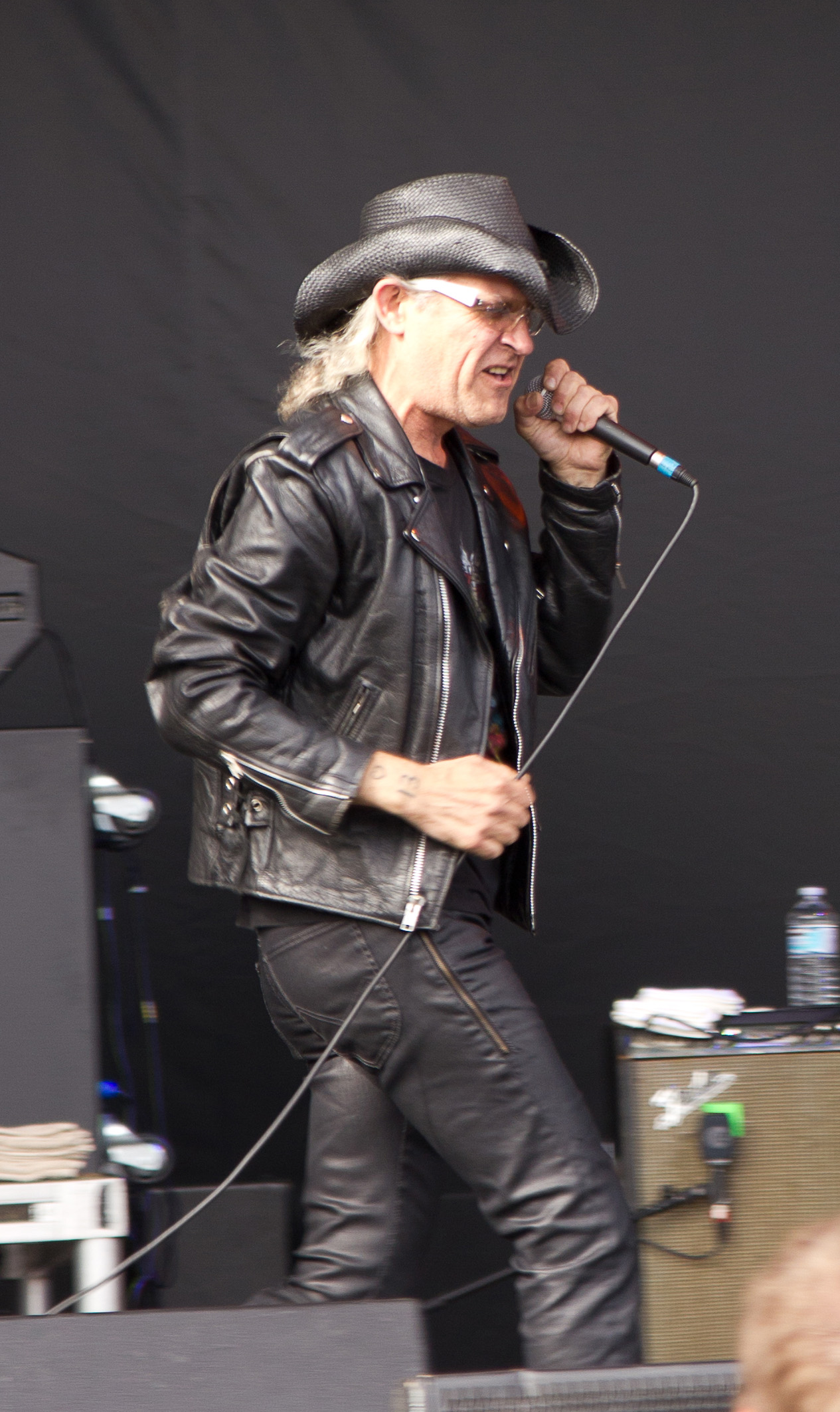 Men Without Hats vocalist Ivan Doroschuk performing at the Burlington Sound of Music festival